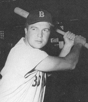 Professional baseball player Russ Nixon